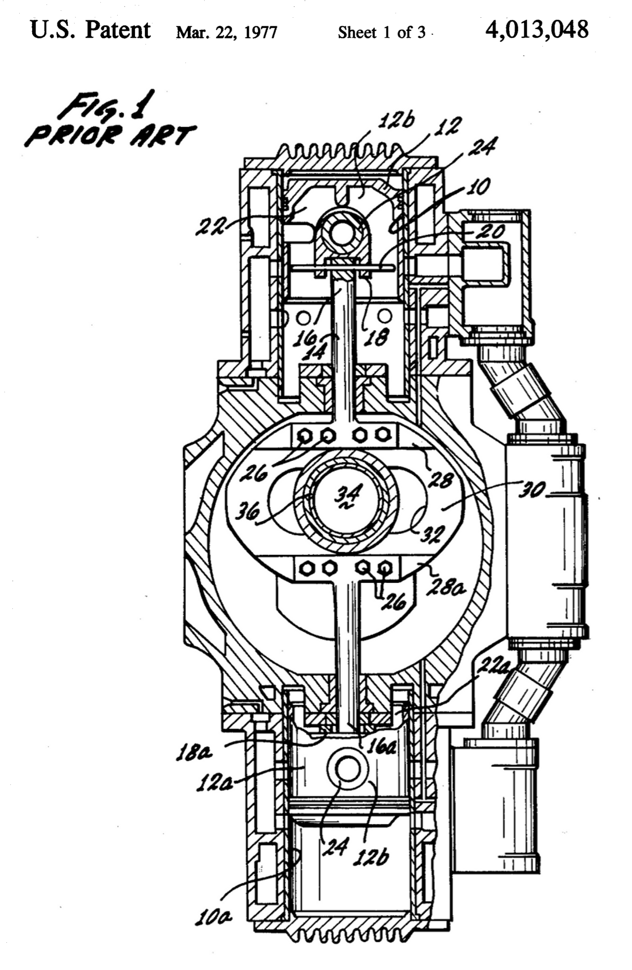 Expired patent US4013048